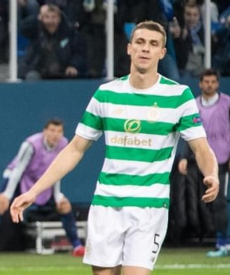 22.02.2018. Россия, Санкт-Петербург, стадион «Санкт-Петербург». Лига Европы УЕФА 2017/18, «Зенит» — «Селтик».